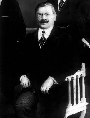 Ali Kemal, Ottoman journalist (1922)